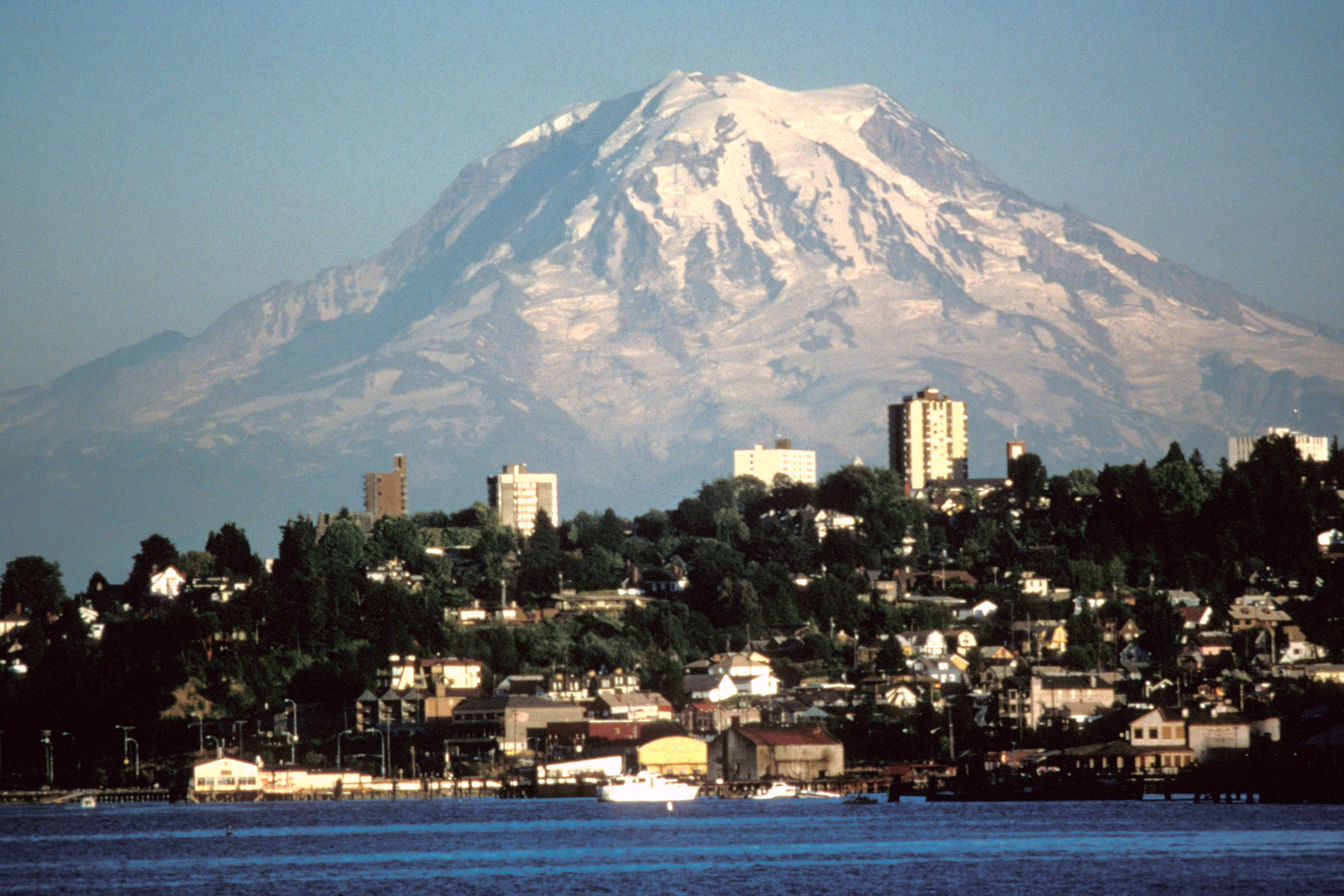 Mount Rainier over Tacoma, Washington, USA.